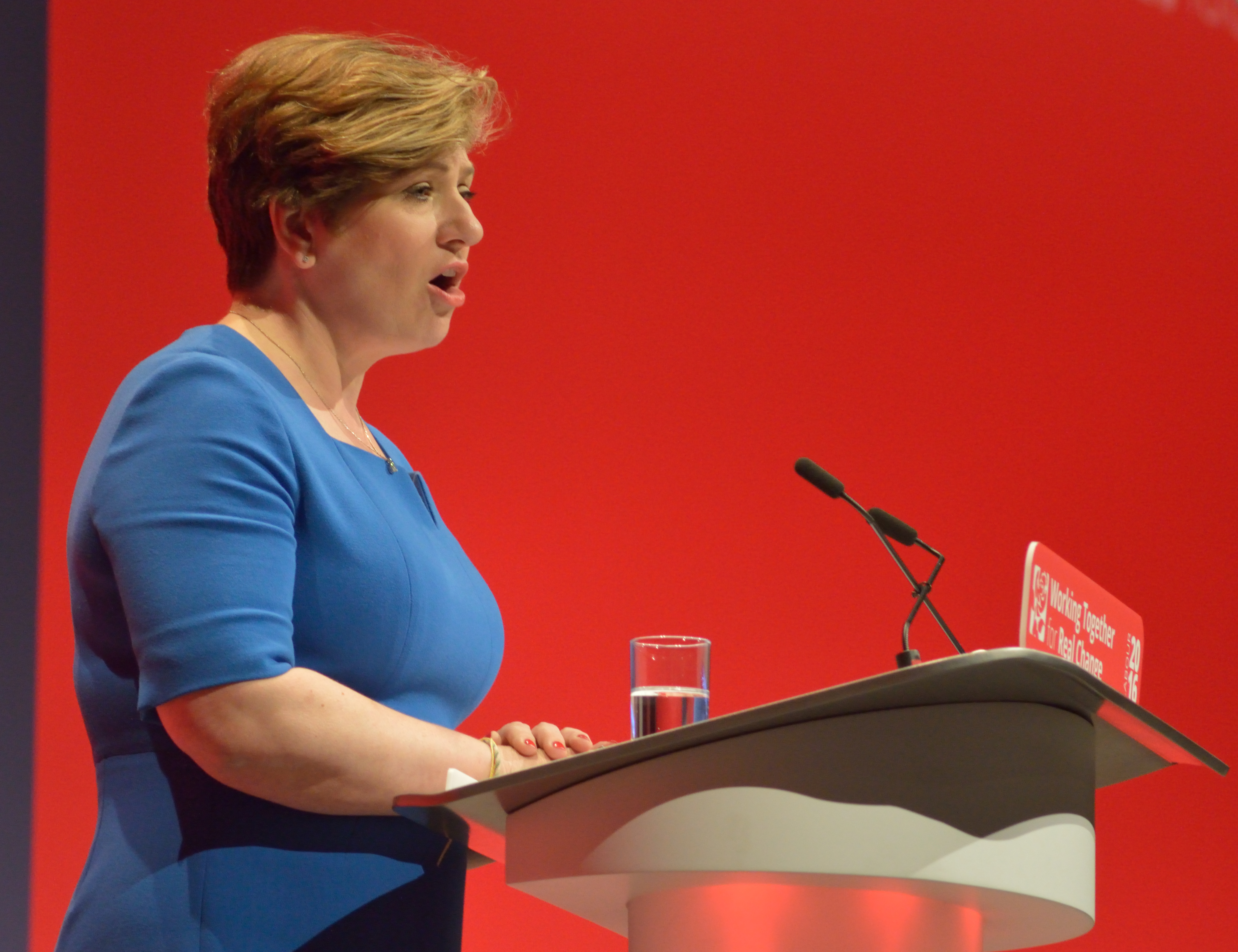 Emily Thornberry giving her Shadow Foreign Secretary speech at the 2016 Labour Party Conference.